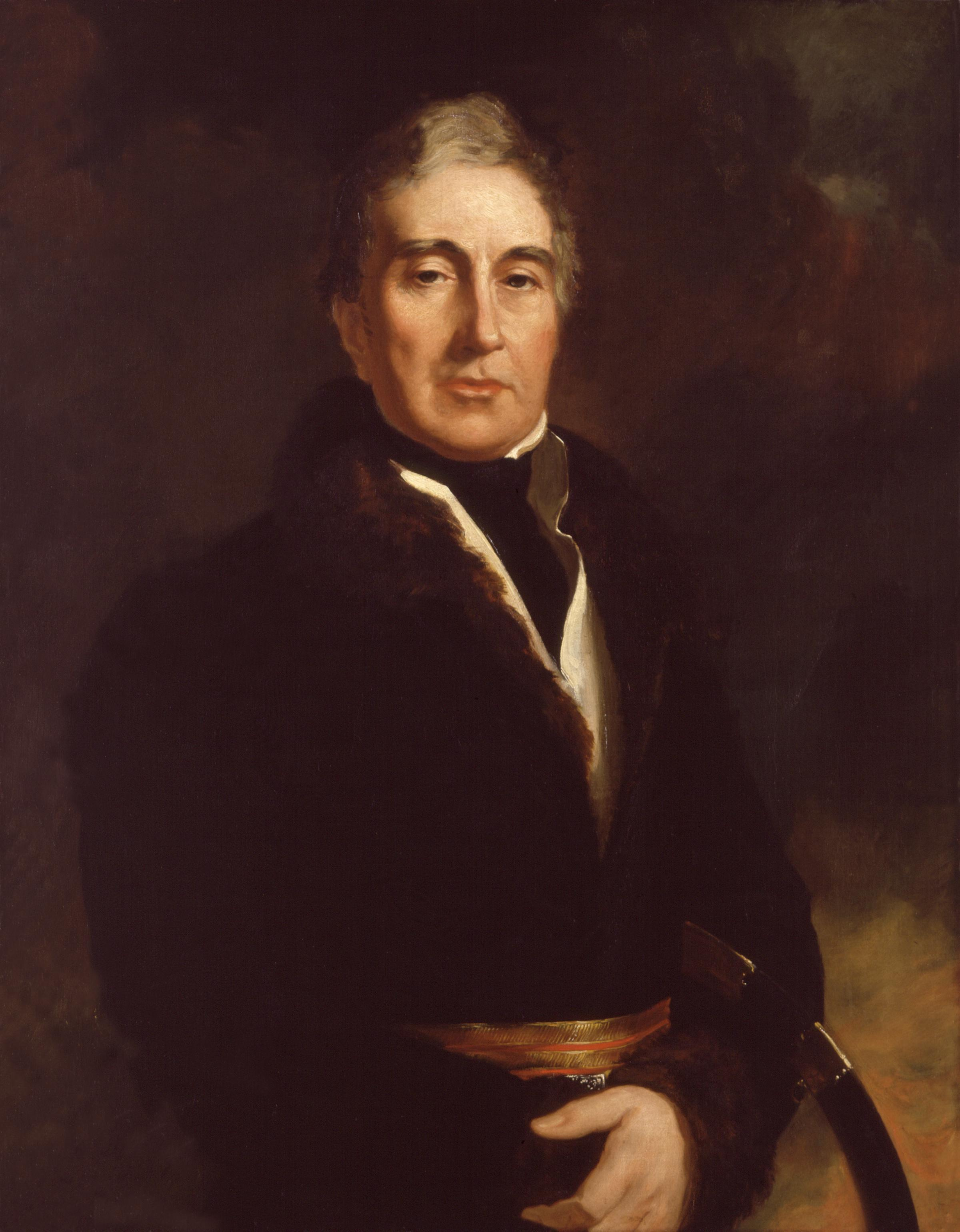 Thomas Graham, Baron Lynedoch, by Sir George Hayter (died 1871), given to the National Portrait Gallery, London in 1896. All images in this batch have been confirmed as author died before 1939 according to the official death date listed by the NPG.